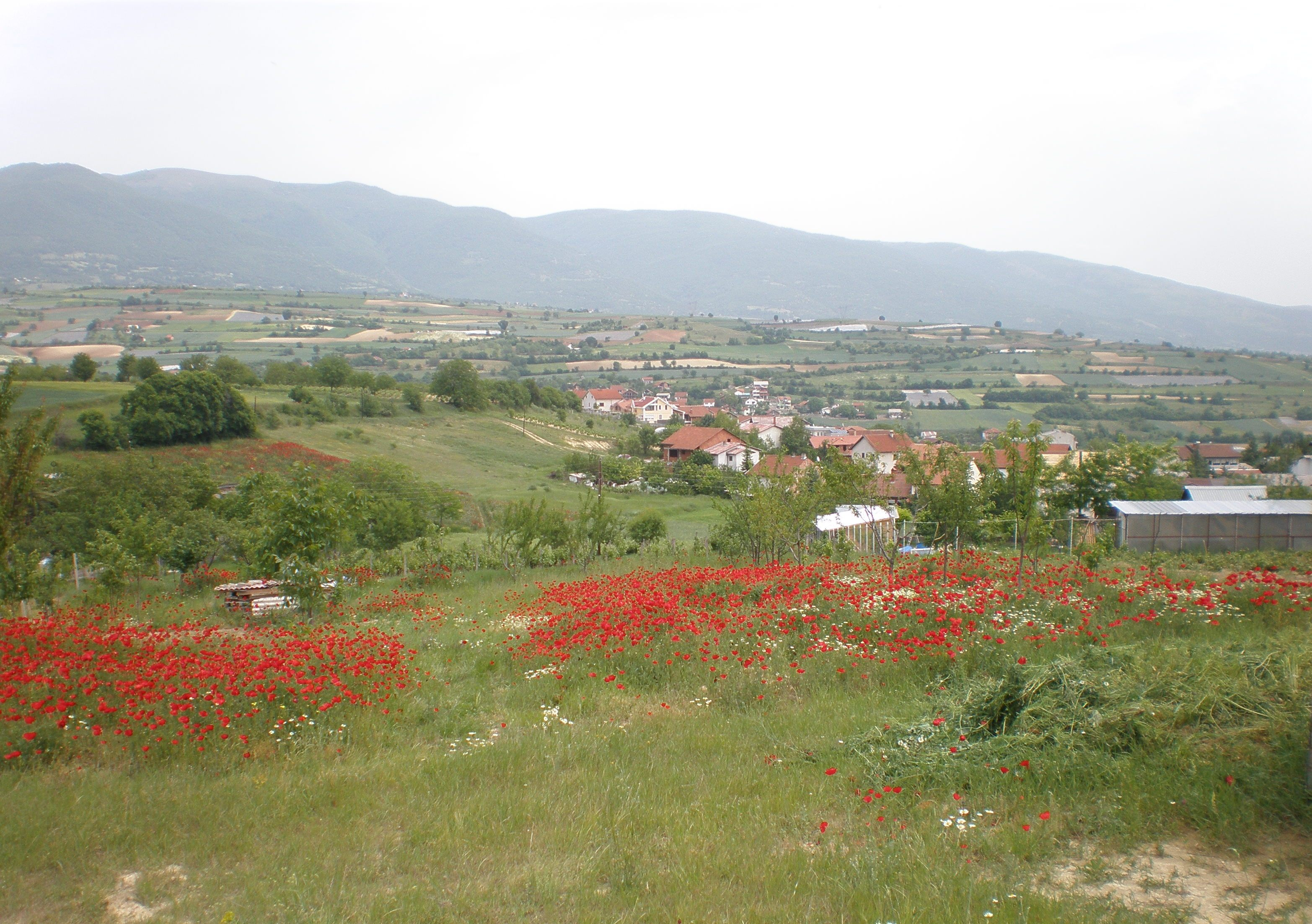 Radishani, Macedonia